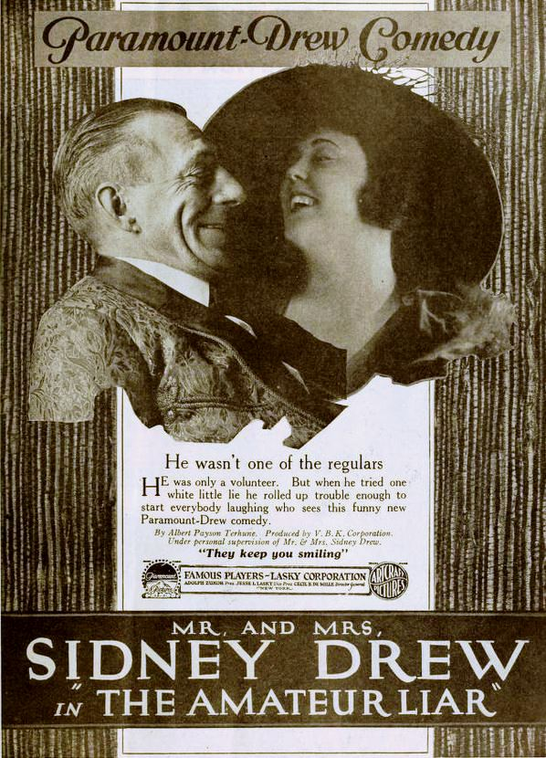 Ad for the American comedy film The Amateur Liar (1919) with Mr. and Mrs. Sidney Drew, on page 151 of the April 12, 1919 Moving Picture World.